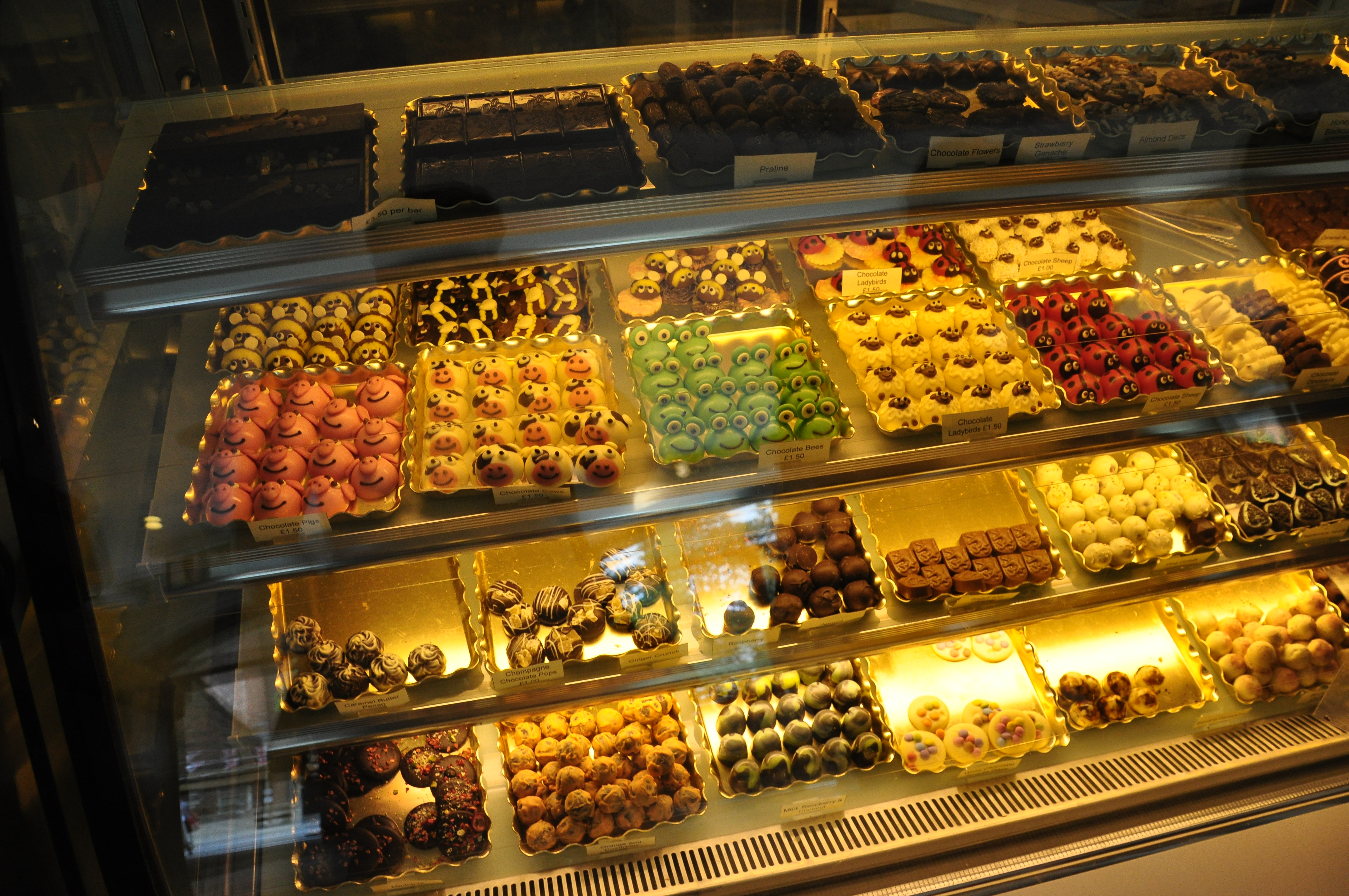 York's Chocolate Story